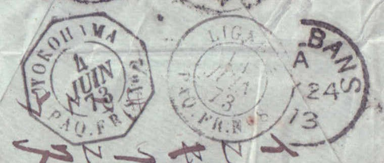 Japan - 1873 - BOINVILLE letter - part 3